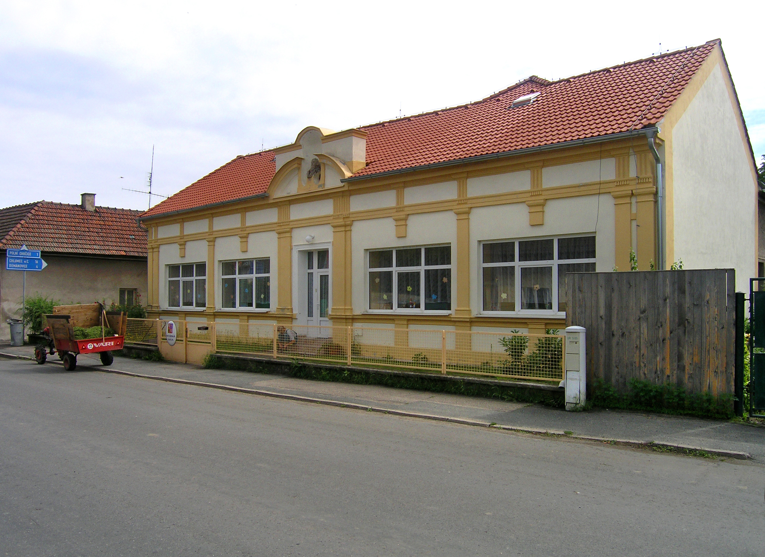 Kindergarten in Ohaře, Czech Republic